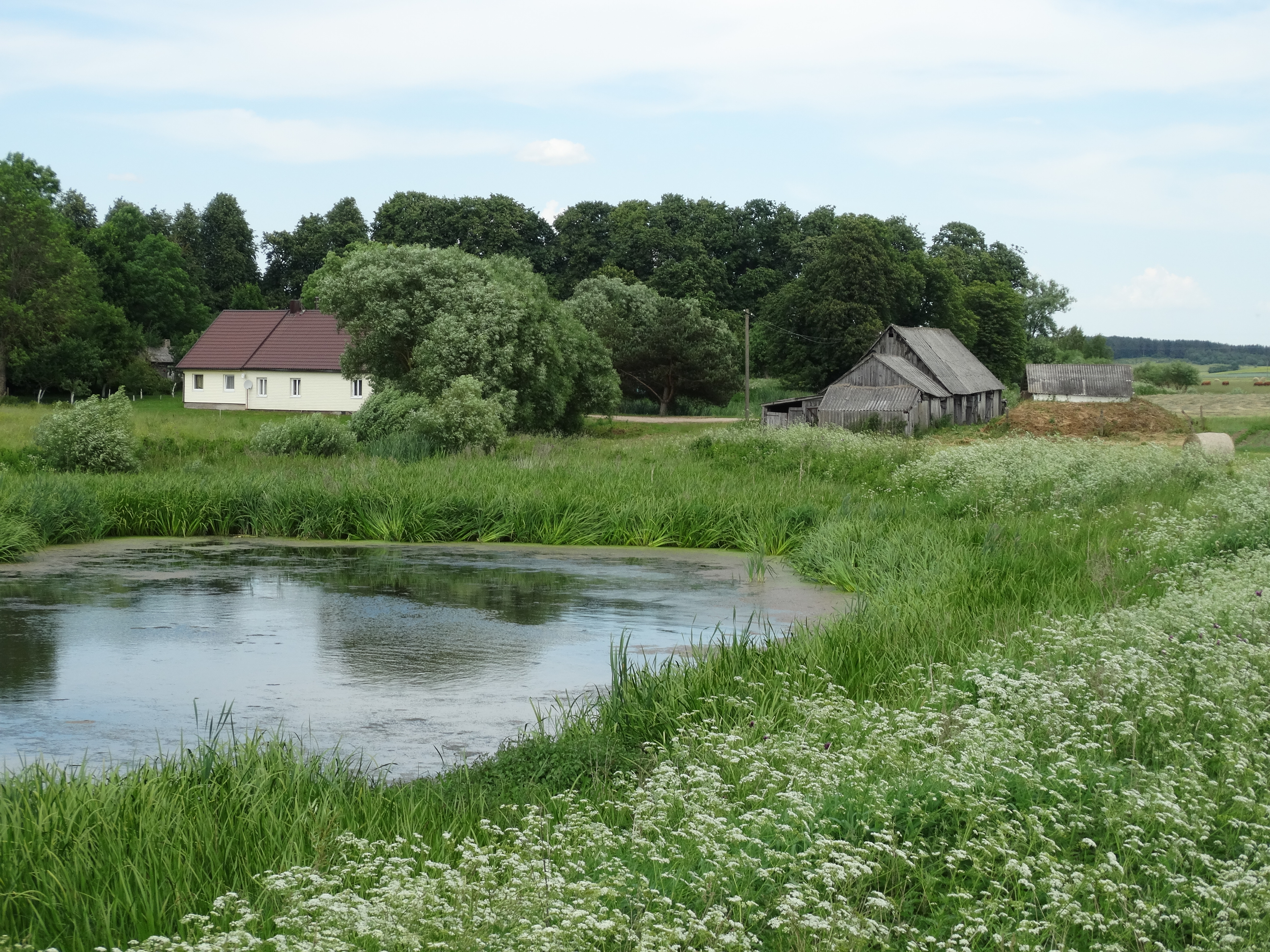 Liktėnai, Raseiniai district, Lithuania